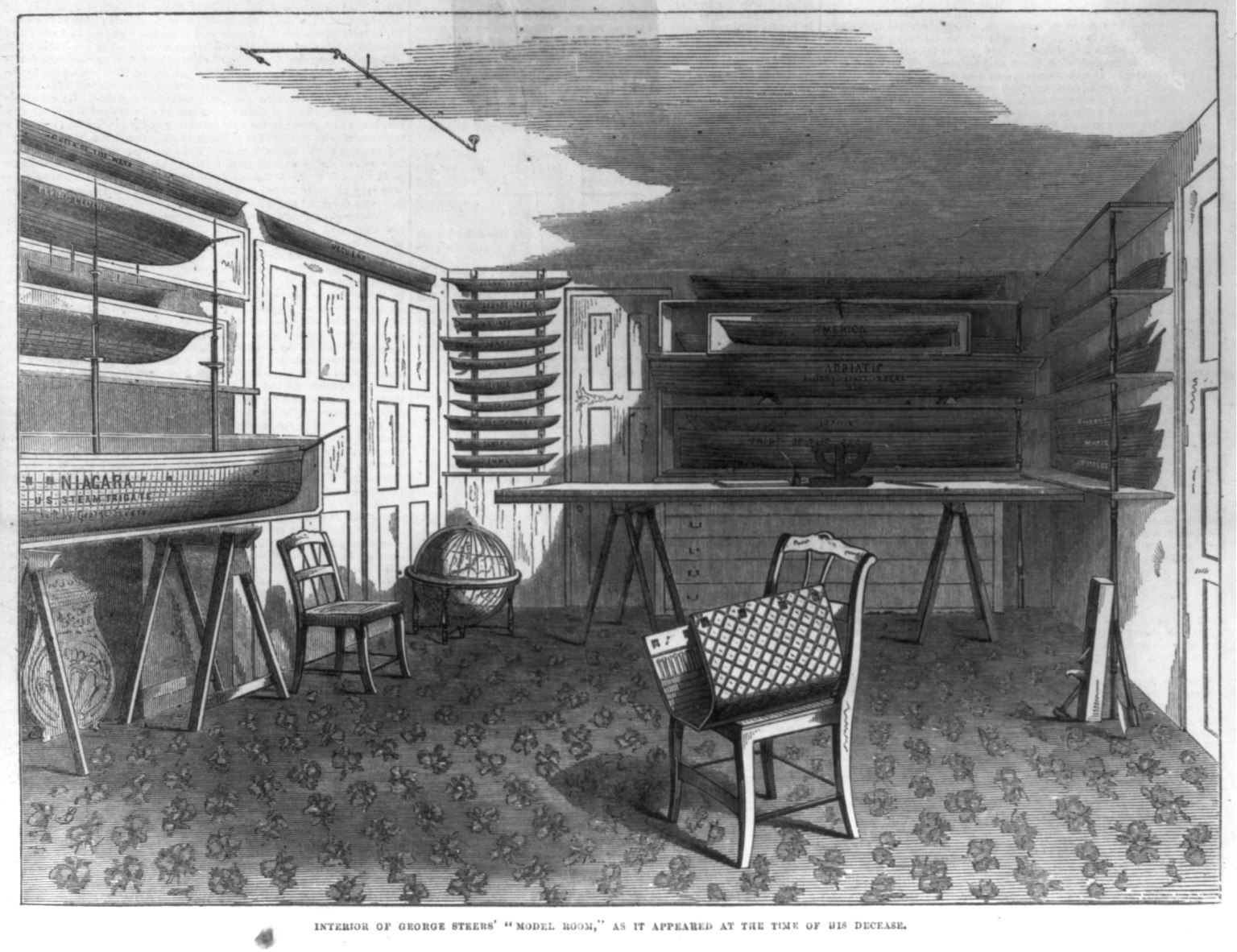 Title: Interior of George Steers' "model room", as it appeared at the time of his decease Abstract/medium: 1 print : wood engraving.